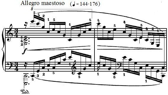 Leopold Godowsky Studies on Chopin's Etudes No. 1 (Chopin Op. 10 No. 1 first version), opening